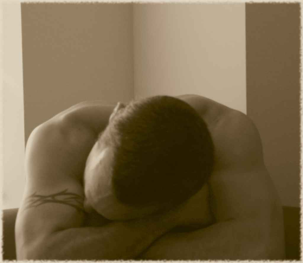 Confusion wanders in Strides the evening like a king Chaos and turmoil prevail Bedlam reigns and hope is drowned Ah but strangely we settle down Resigned to the sinking ship on which we sail It's all over bar the shoutin' One things for sure It's all over now -dgray